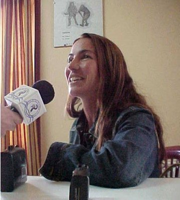 María Magdalena "Maggie" Aicega. Grass Hockey player. Argentina.